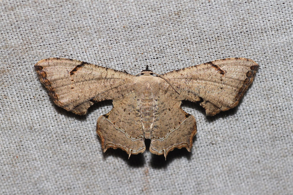 Dysaethria quadricaudata (Uraniidae: Epipleminae)